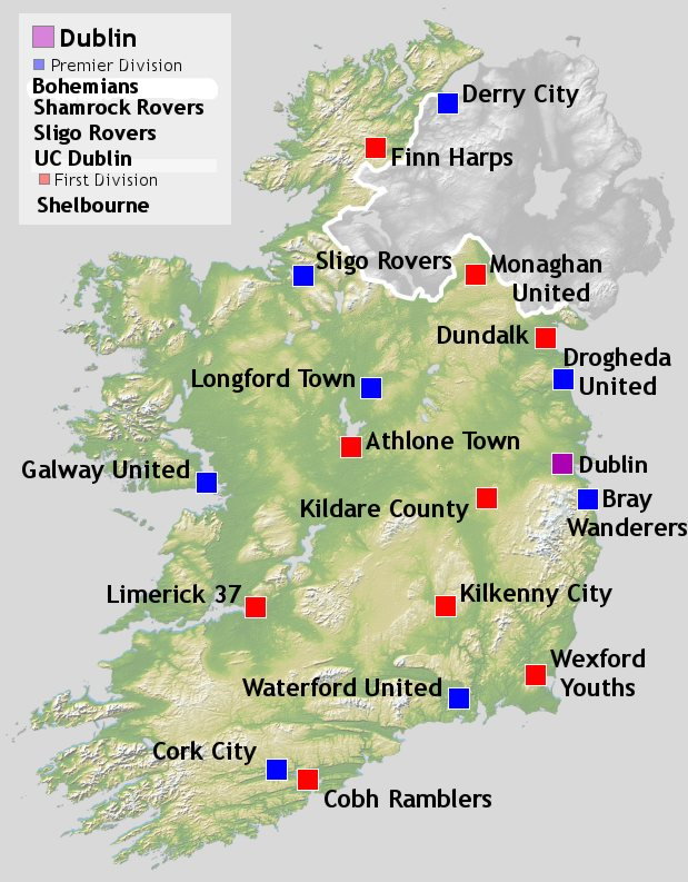 map: clubs of the FAI National League of Ireland, season 2007